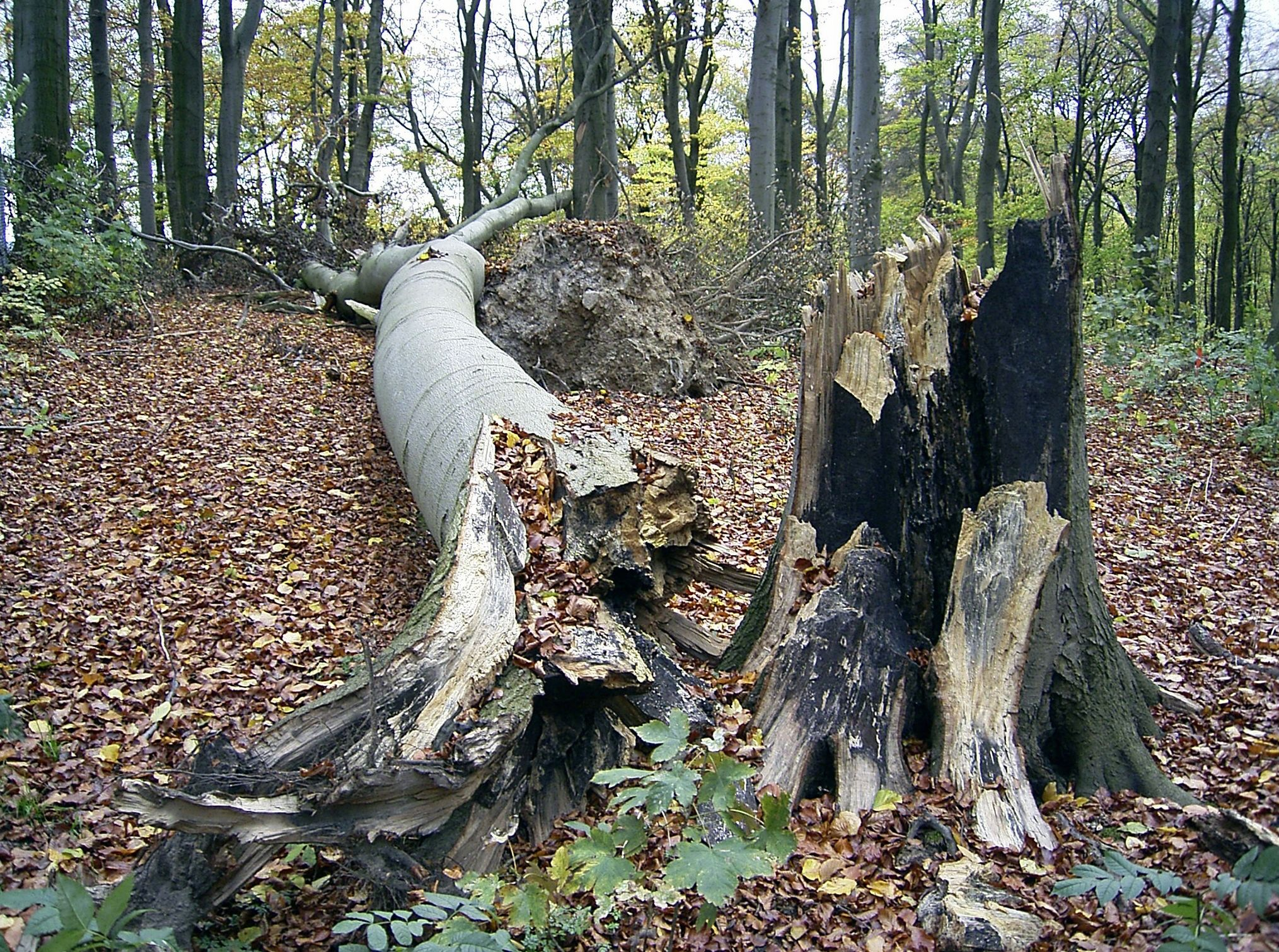 Beech forest in Bad Nenndorf, Germany – Kretzschmaria deusta, wood decay caused by a fungus infection. Common on Beech and other broadleaved trees including Oak (Quercus), Lime (Tilia), Maple (Acer).